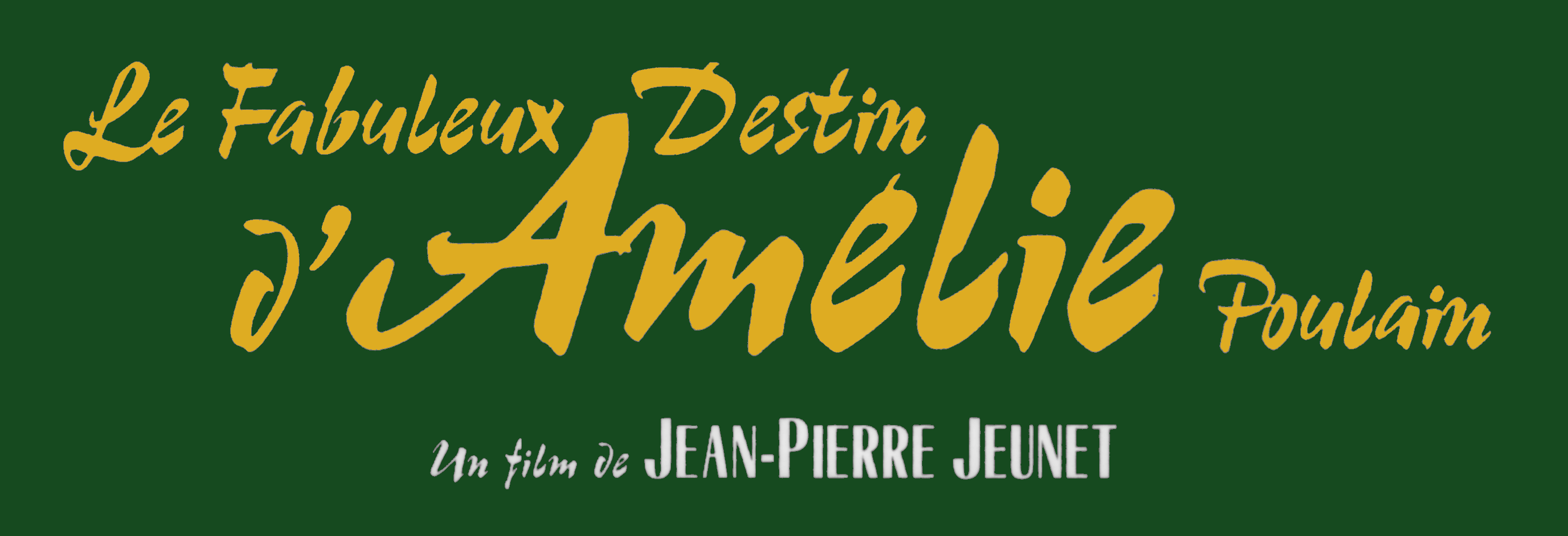 Title for the film Le Fabuleux Destin d'Amélie Poulain, as found on the French DVD cover. Recolorized version to match some of the feeling of the original yellow-and-green design.